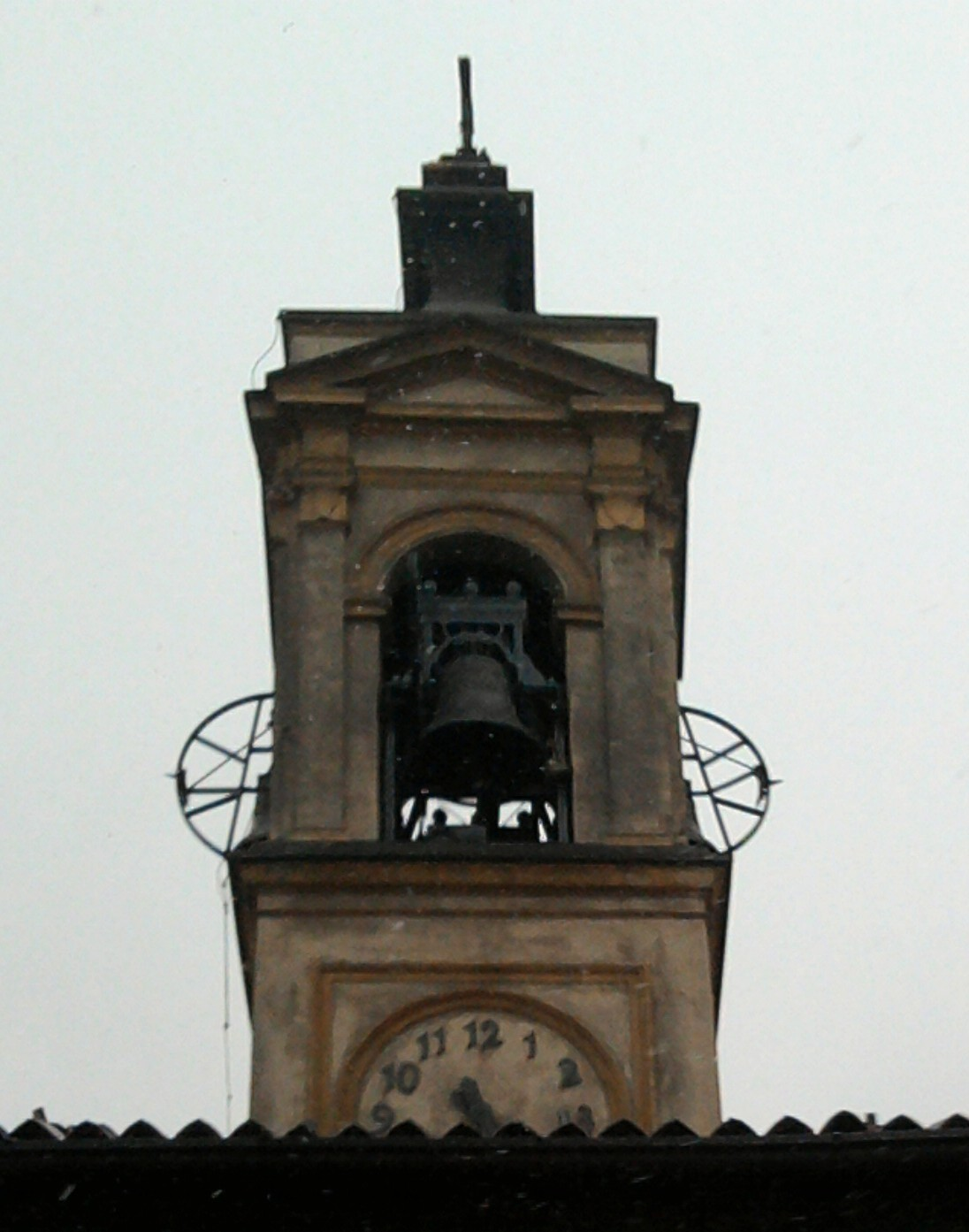 Steeple of the church Santa Maria alla Fontana, Milan